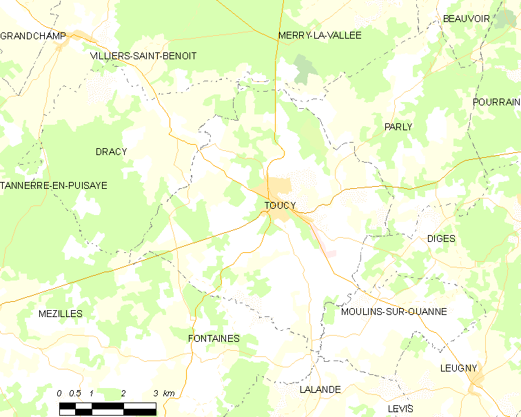 Map of French municipality Toucy